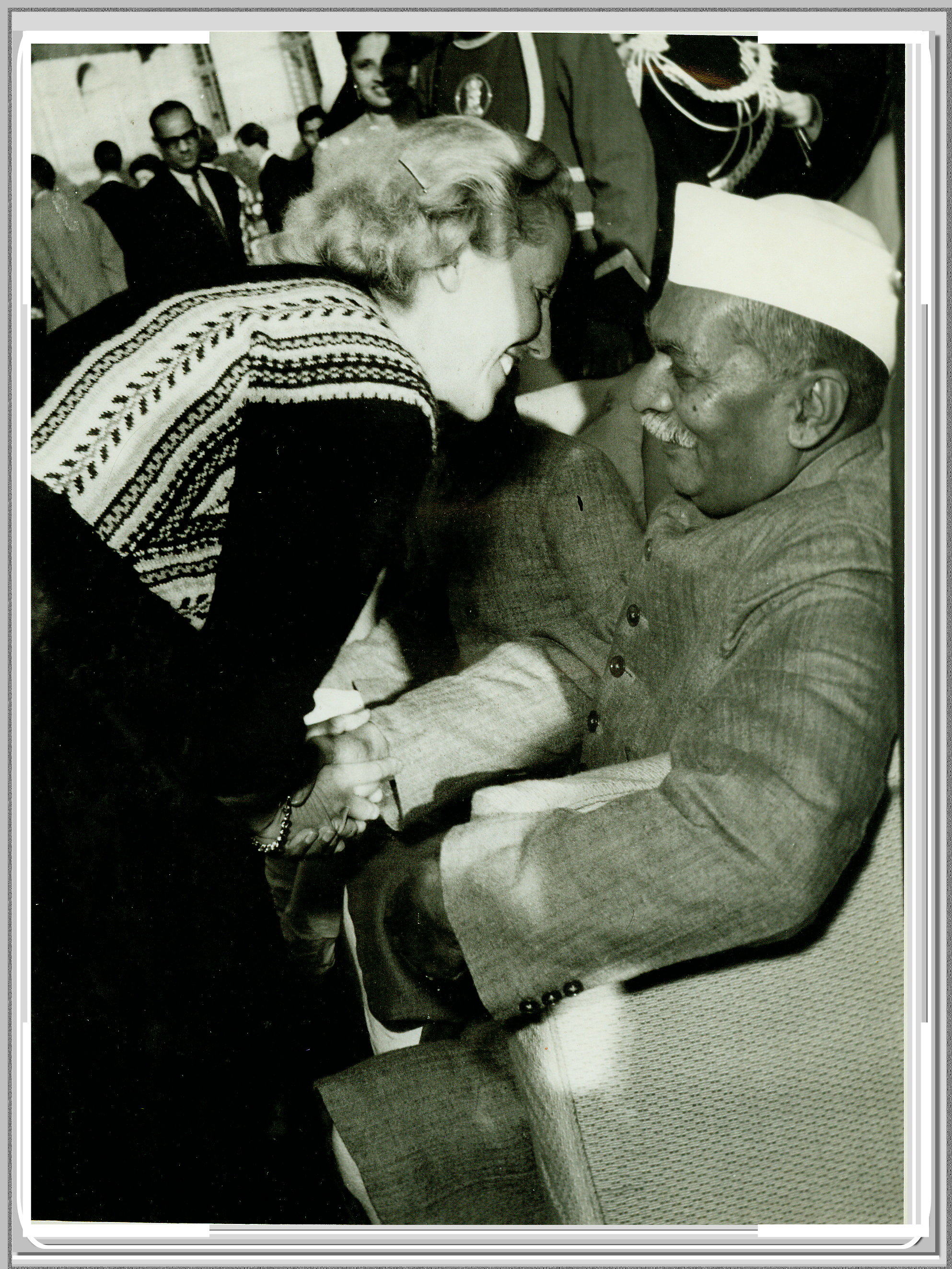 Dr. Rajendra Prasad, the Pesident of India, is receiving Mrs. Lieselotte Hachmann